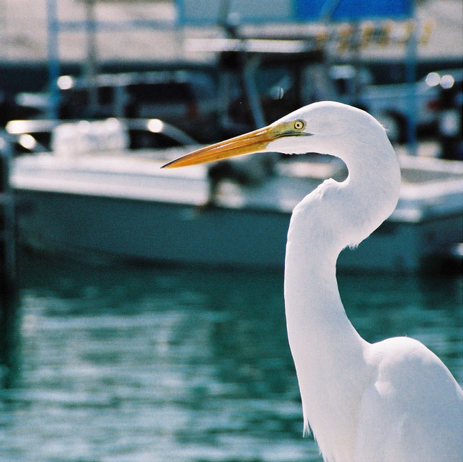 Heron - Florida Keys